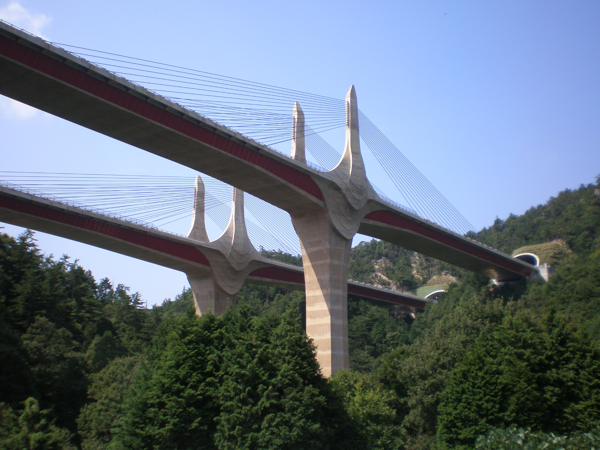 Shin-Meishin Expressway Omioodori bridge